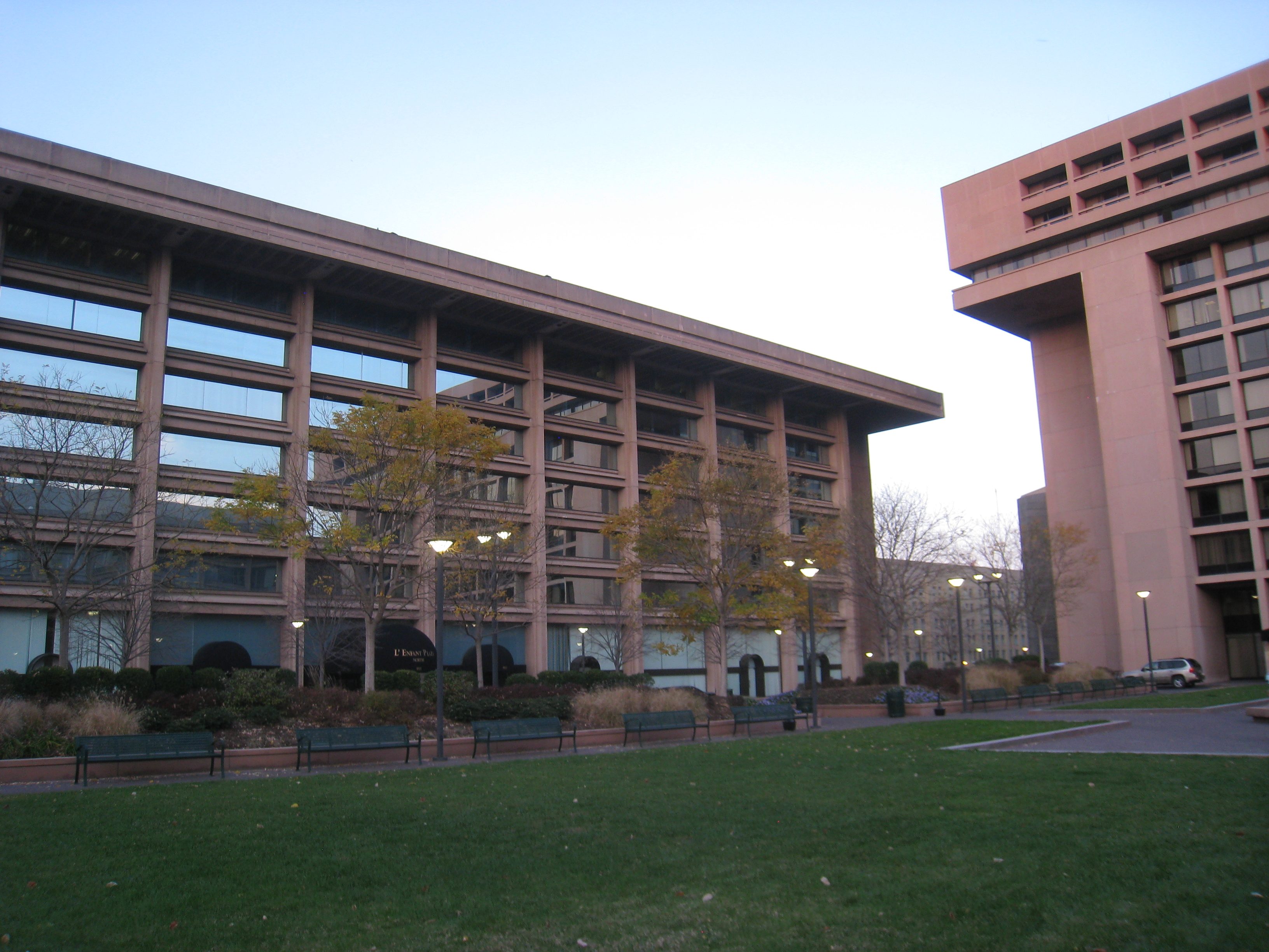 North building (left) and L'Enfant Plaza Hotel building (right), Washington, DC, USA. The L'Enfant Plaza complex was designed by the firm I. M. Pei and Associates. The architect of the north building was Araldo Cossutta, and the architect of the hotel building was Vlastimil Koubek.